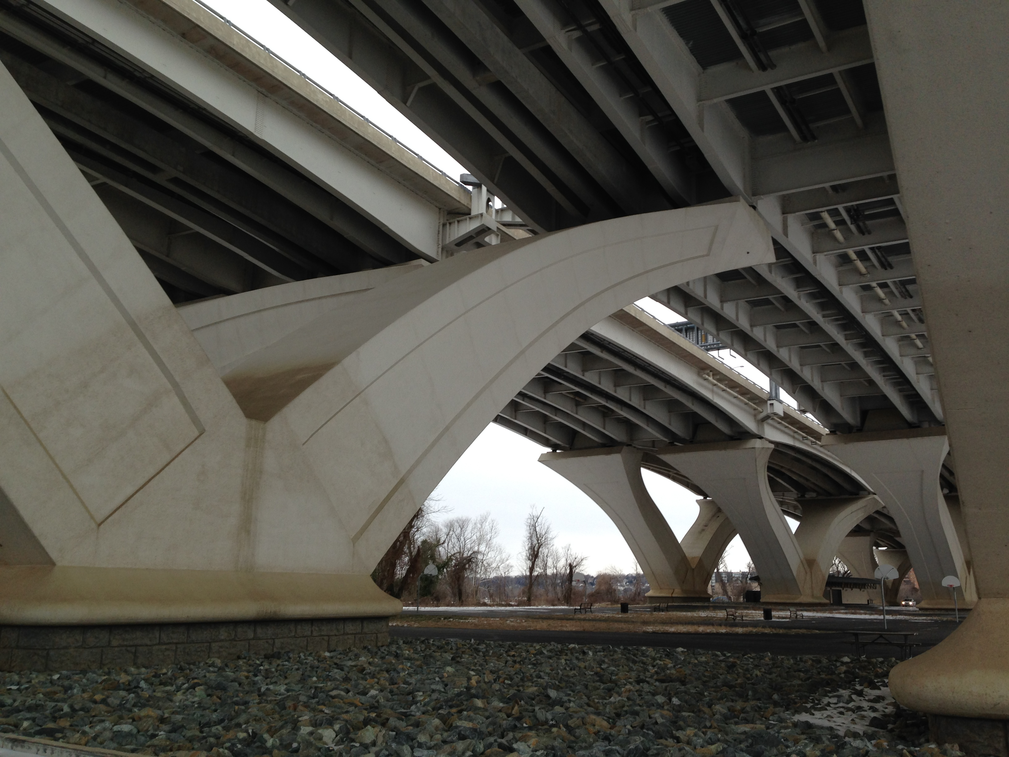 Underside of the Woodrow Wilson Bridge in Jones Point Park in Alexandria, Virginia.